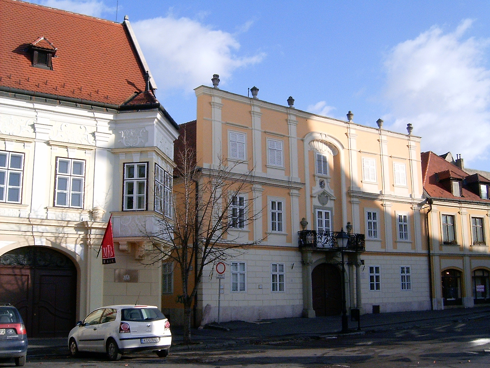 The Ott House at Bécsi kapu Square, Győr, Hungary